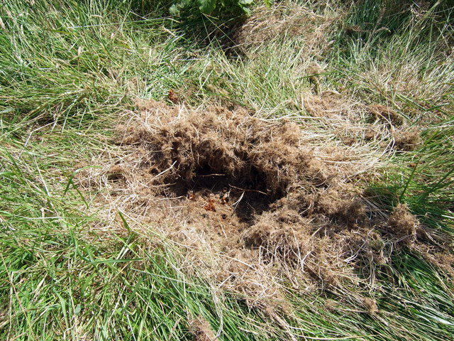 Catastrophe for the bumblebees Deep in the long grass a bumblebees' nest has recently been unearthed and raided, most likely by badgers. The bees build their nest below the ground often occupying an existing cavity such as an old mouse nest. The nest comb and brood-cells are made from a waxy material produced by the bees from special wax-glands on their bodies, and the whole nest is usually covered and protected inside a ball of dead, finely shredded grass, moss, animal fur or similar material.